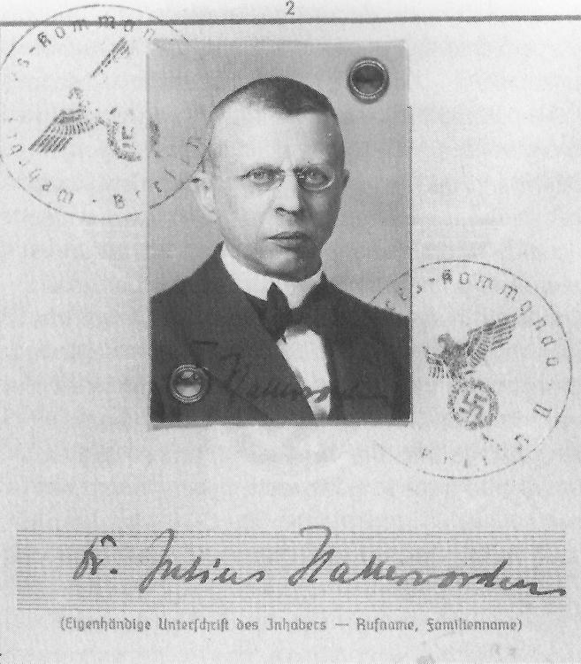 Julius Hallervorden